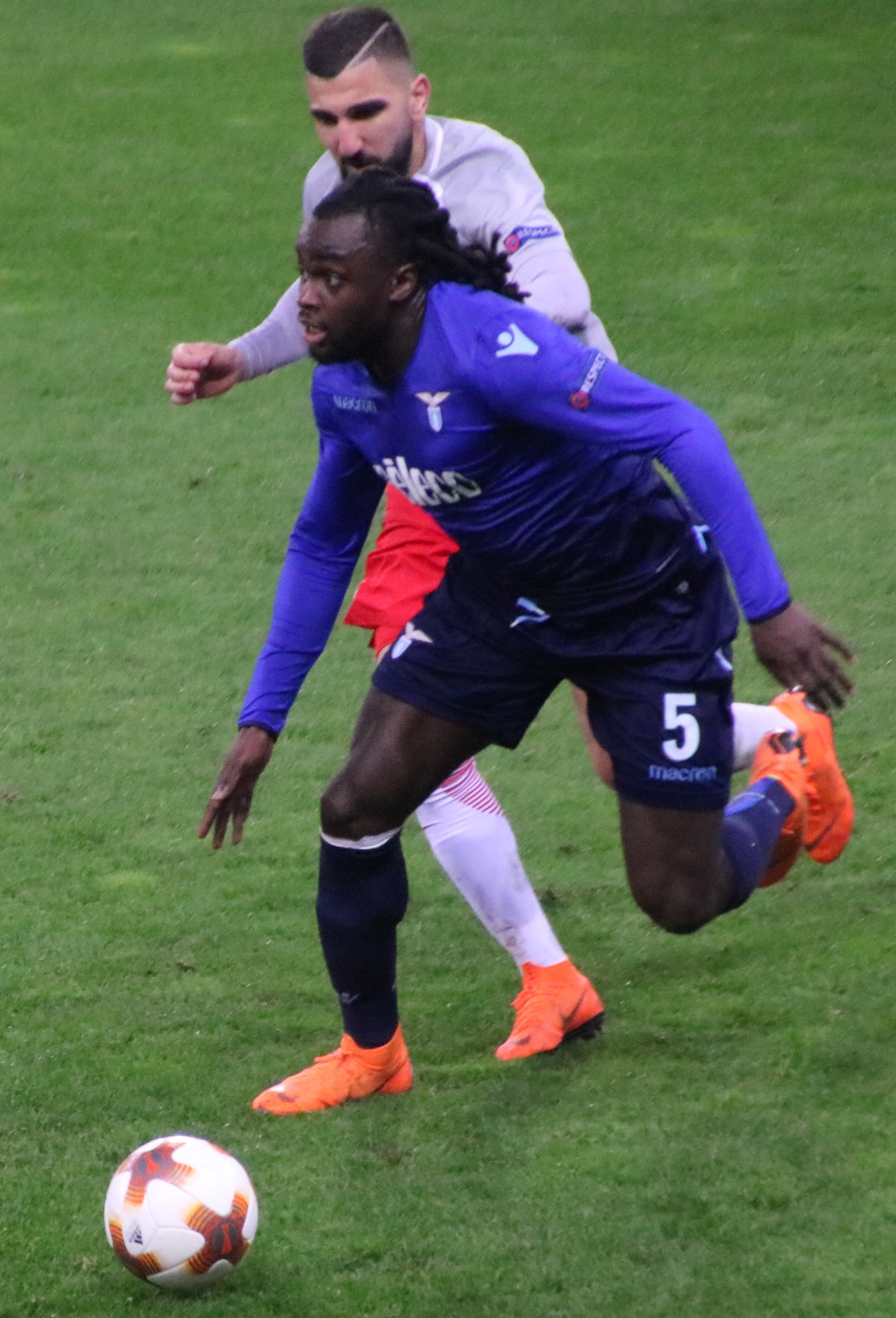 UEFA euro League Quarterfinal 2nd leg